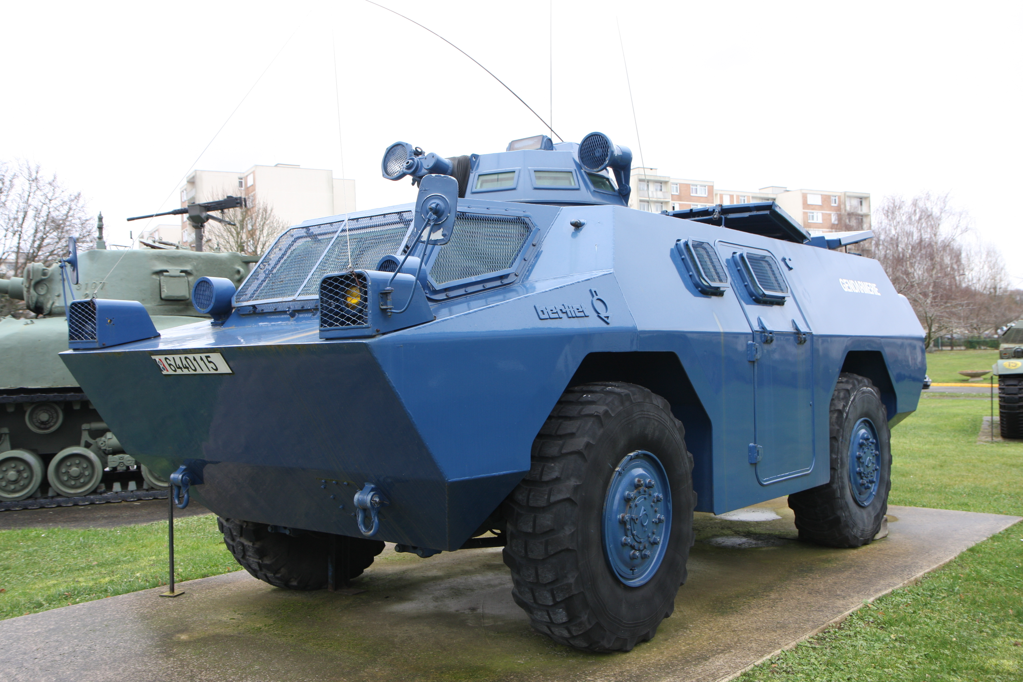 VBRG-2